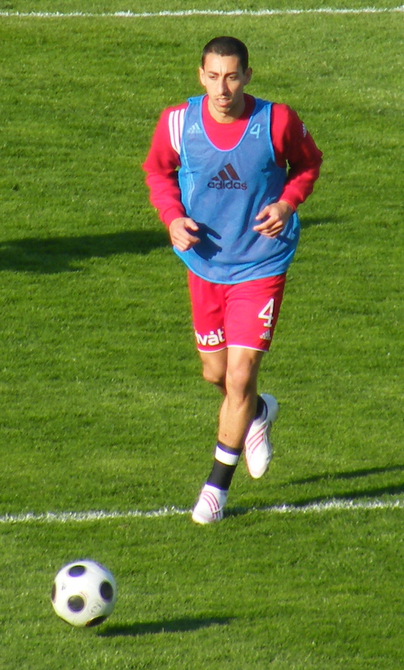 Leandro de Almeida Hungarian football player